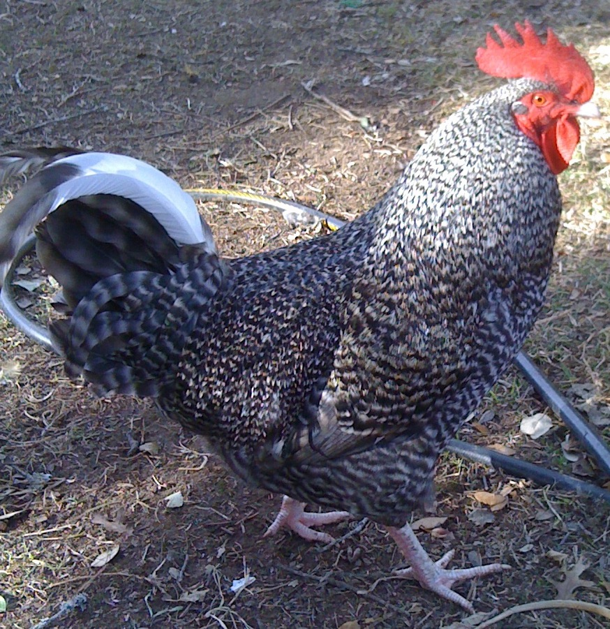 Cuckoo Marans Rooster 9 months old